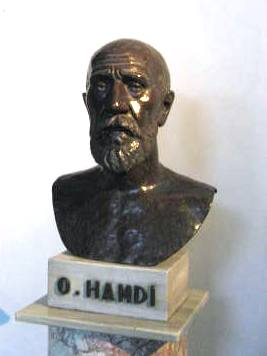 Bust and plaque of Osman Hamdi Bey, founder of the Istanbul Archaeology Museum in the museum.